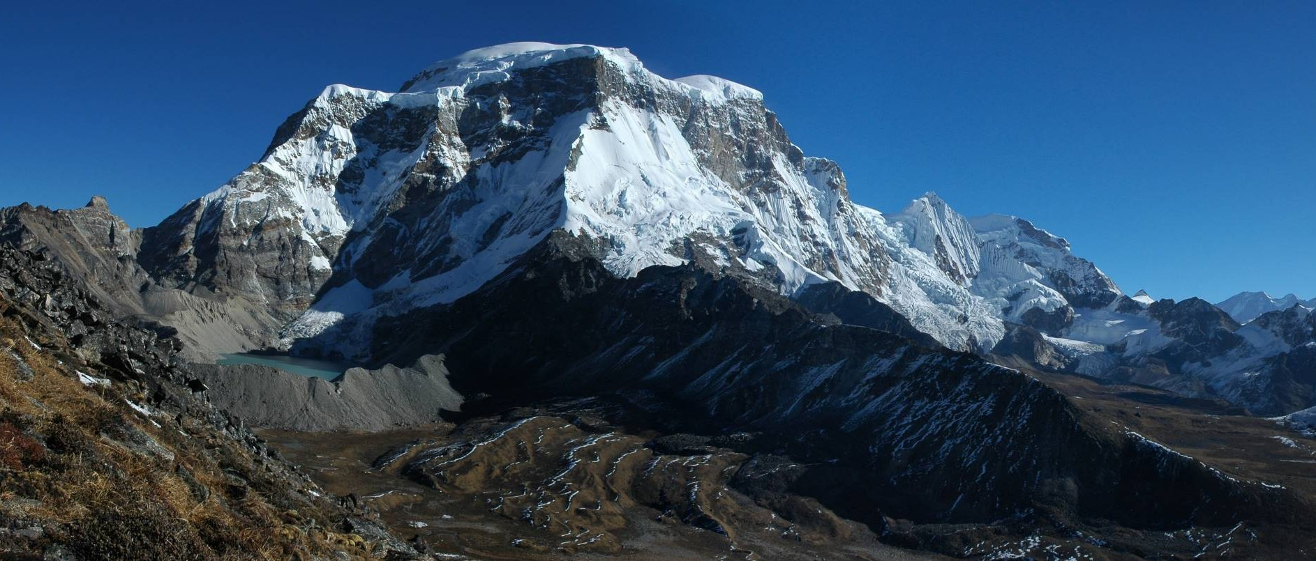 Kangchengyao mountain range in Northern Sikkim, east of Thanggu.